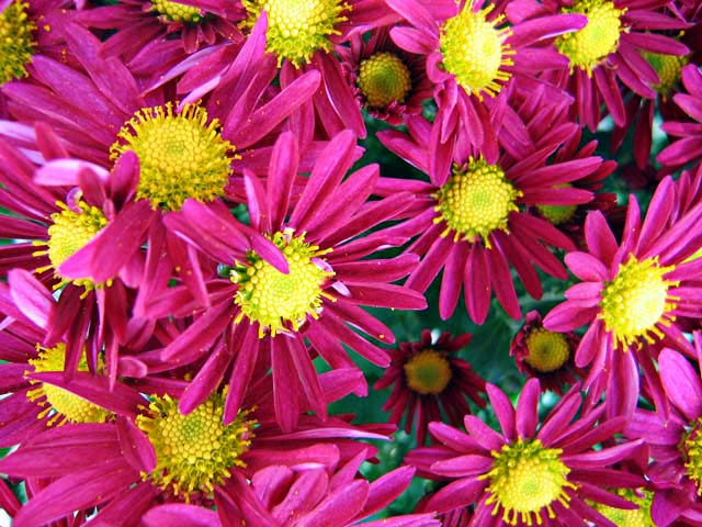 Description: Bastensko cvece Source: self-made